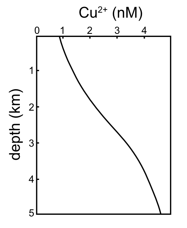 Vertical Cu concentration profile in the Pacific ocean. Data from: Bruland, 1980. Oceanographic distributions of cadmium, zinc, nickel, and copper in the North Pacific. Earth Planet Sci Lett 47, 176-198.